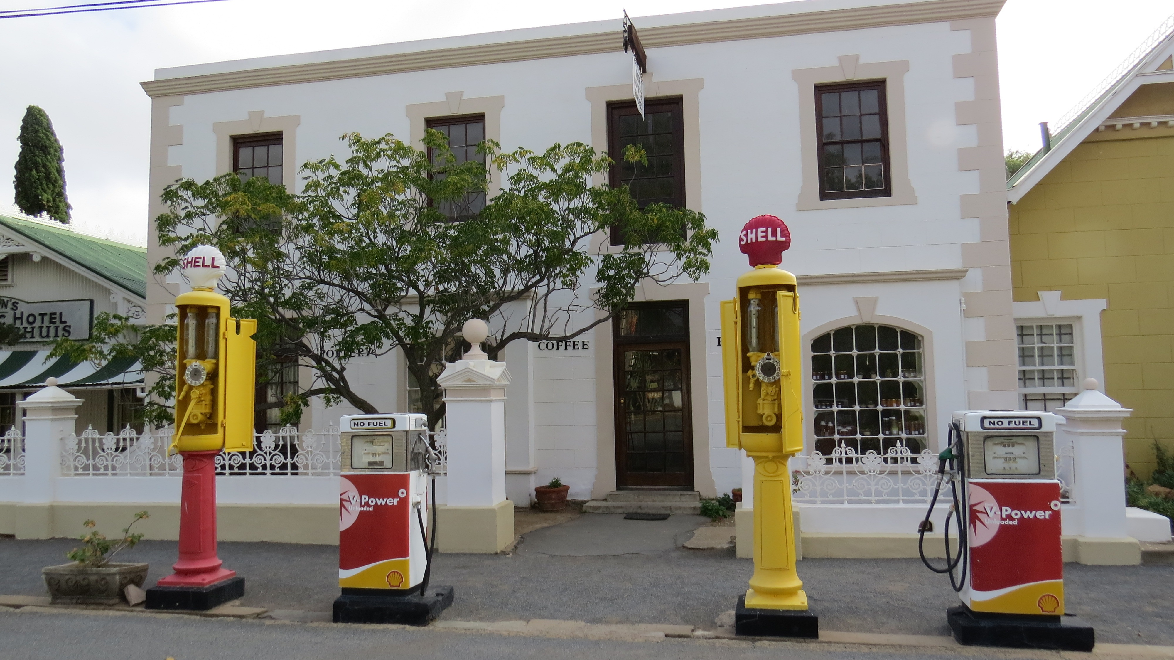 Petrol pumps at Matjiesfontein Village This media shows a South African Protected Site with SAHRA file reference 9/2/058/0001.